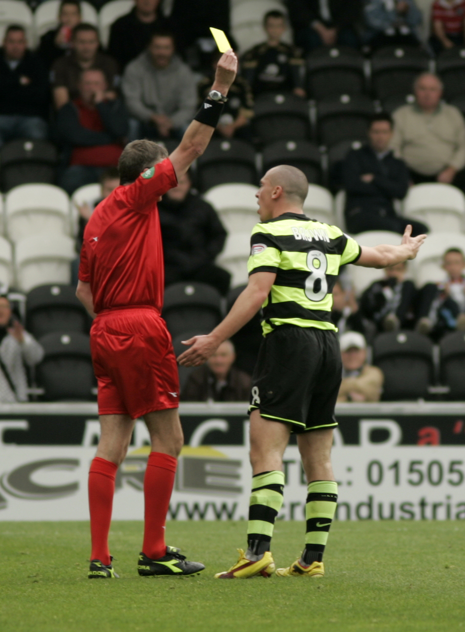 Scott Brown